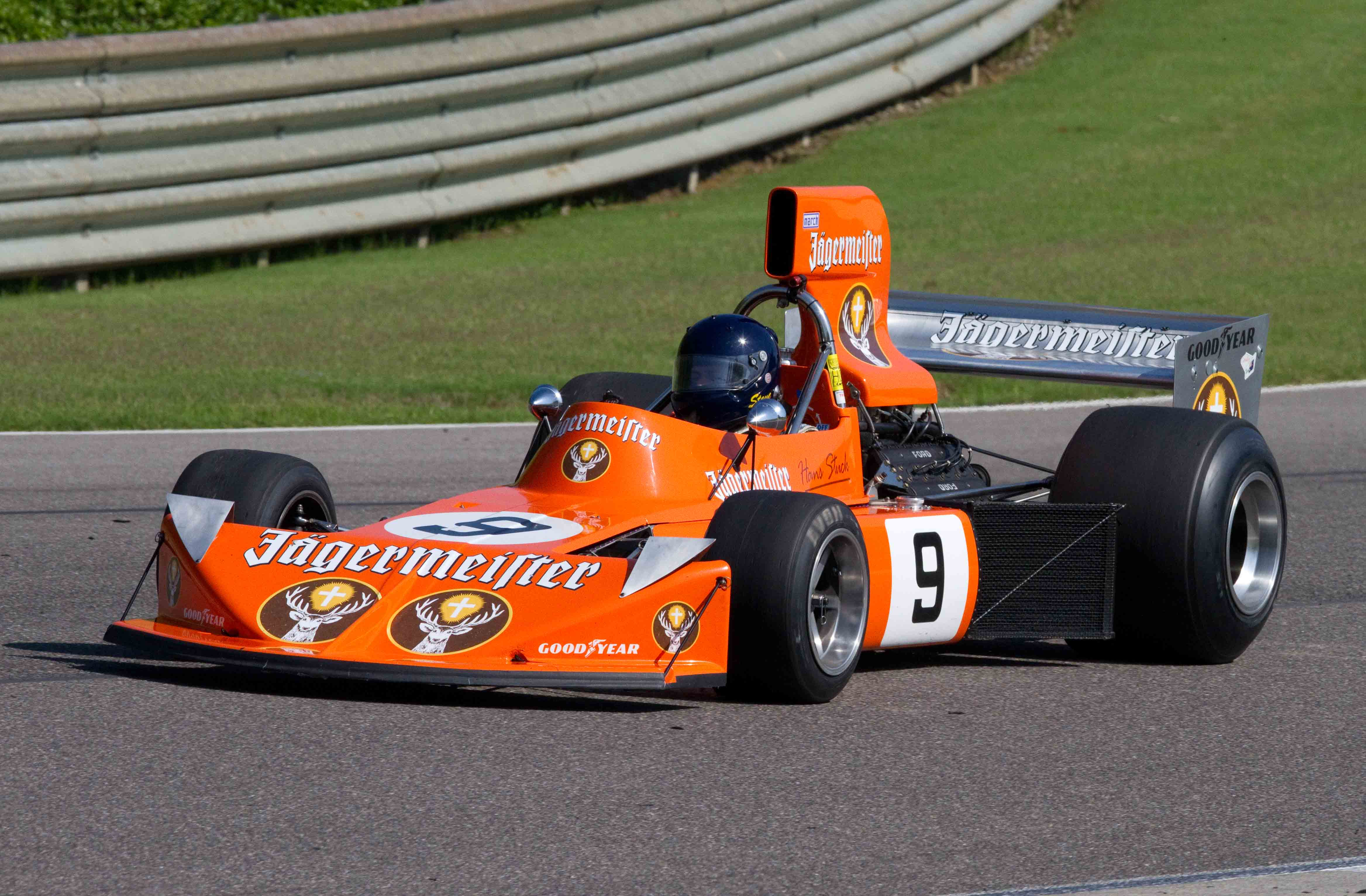 March 741 at Barber Motorsports Park, 2010